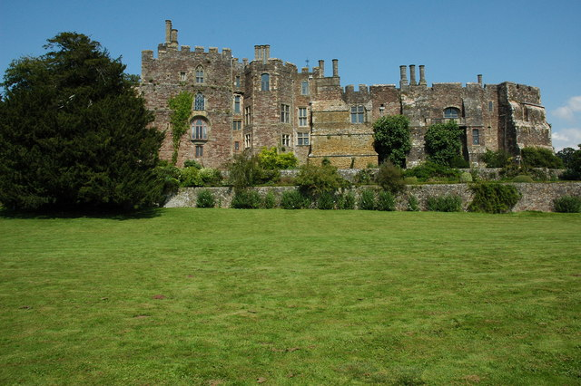 Berkeley Castle Berkeley Castle viewed from the south. In the early 14th century Edward II was held captive and murdered in the castle.